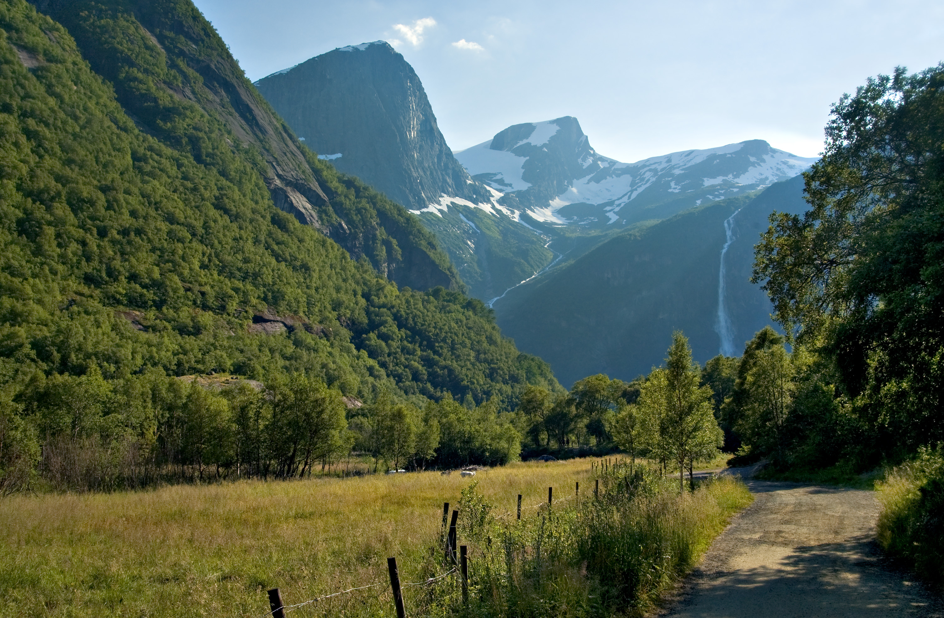 The valley of Briksdalen in Stryn, Sogn og Fjordane county, Norway. The waterfall to the right is the Volefossen, the mountain to the left the Middagsnibba.